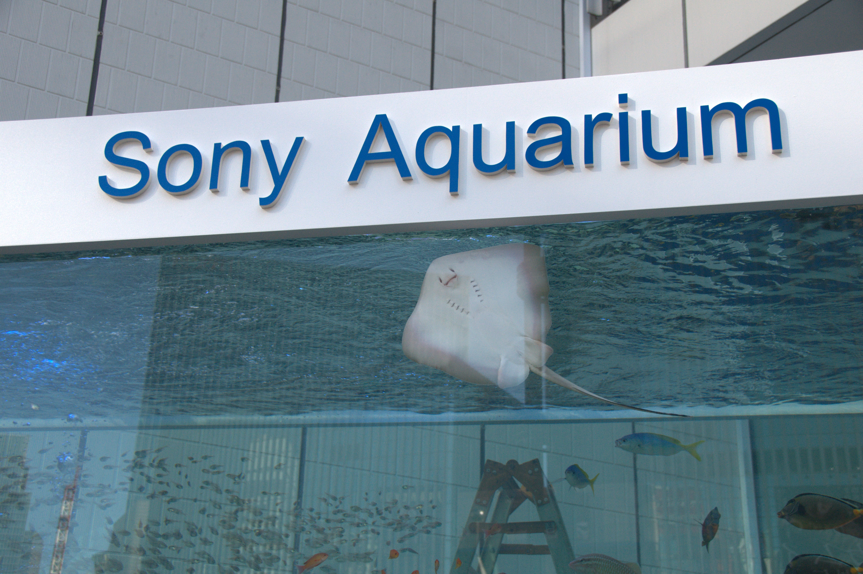 Sony Aquqrium, Tokyo.